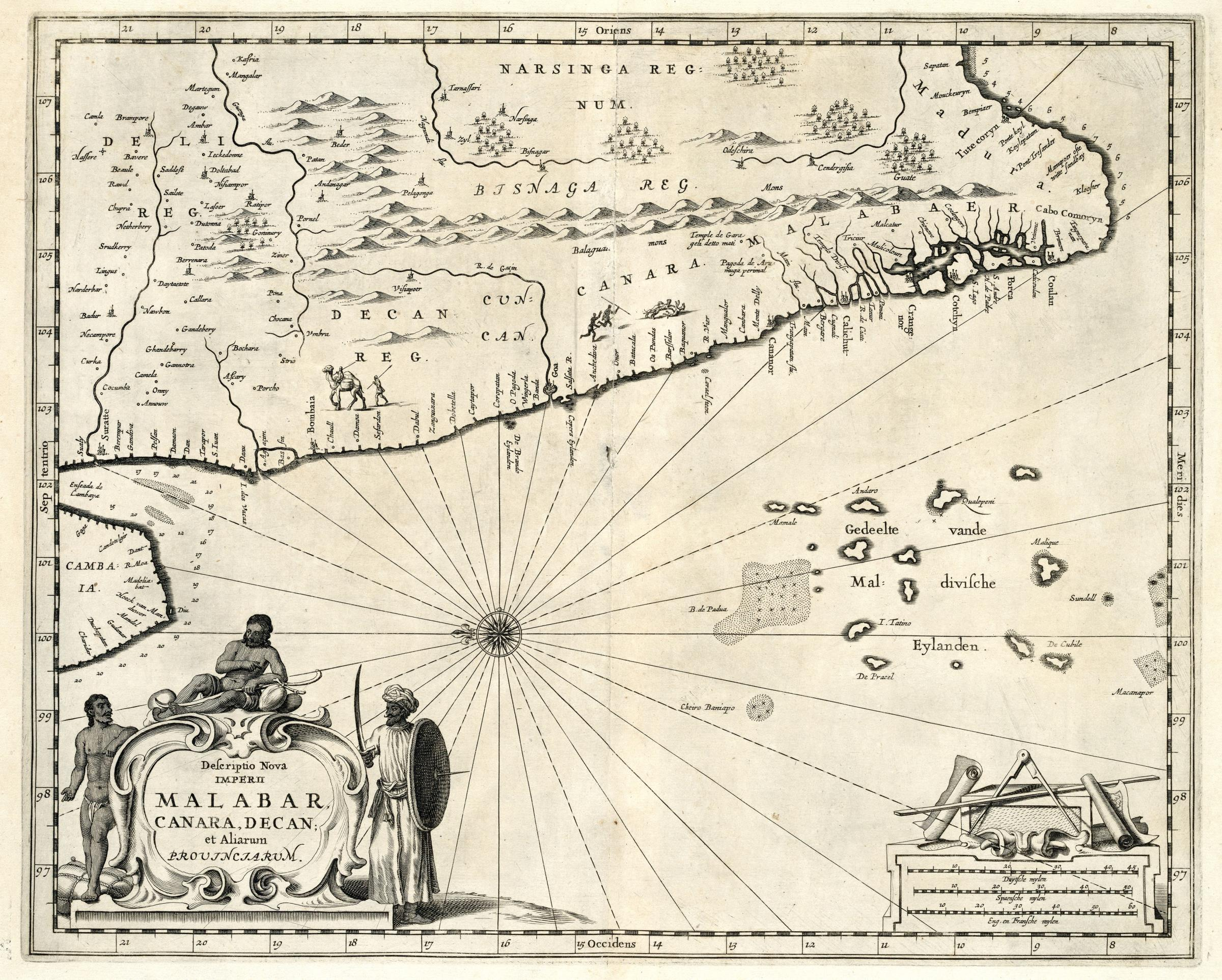 Map of the Malabar Coast. Descriptio Nova Imperii Malabar Canara, Decan, et Aliarum Provinciarum. The chart features several figures and animals.